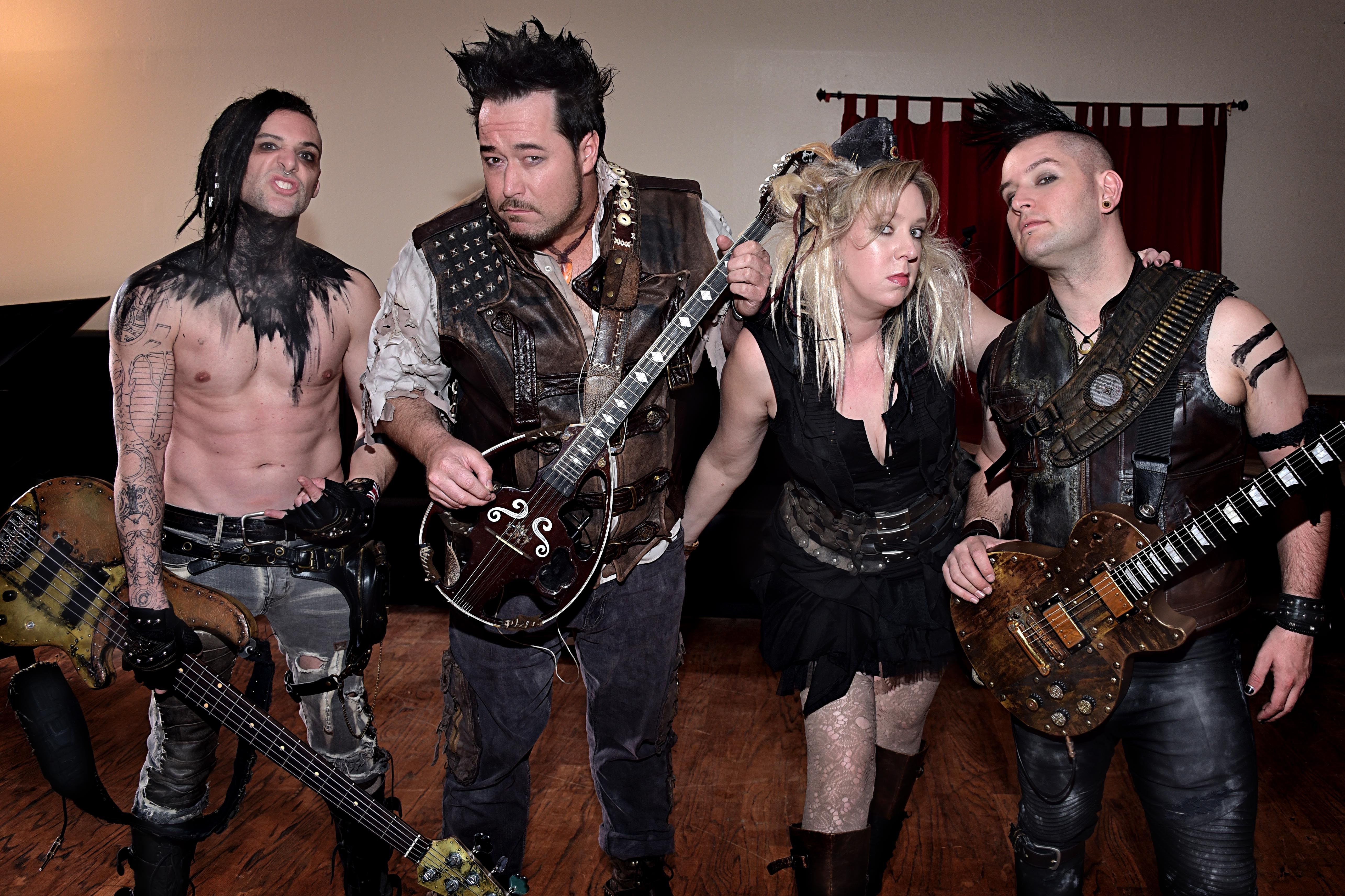 Abney Park Band in Torrance California on February 25, 2017 - Photo by Glenn Francis of